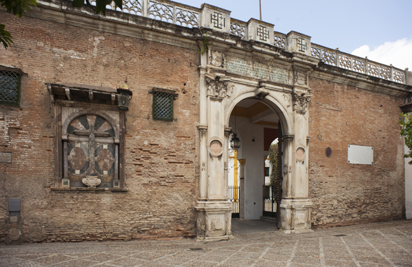 Ref: PM_100951_E_Sevilla.jpg; Entrada principal; Sevilla; Casa de Pilatos; Andalucía, Sevilla; Spain; Europe/Spain/Sevilla; photo: Paul M.R.Maeyaert; © Paul M.R. Maeyaert